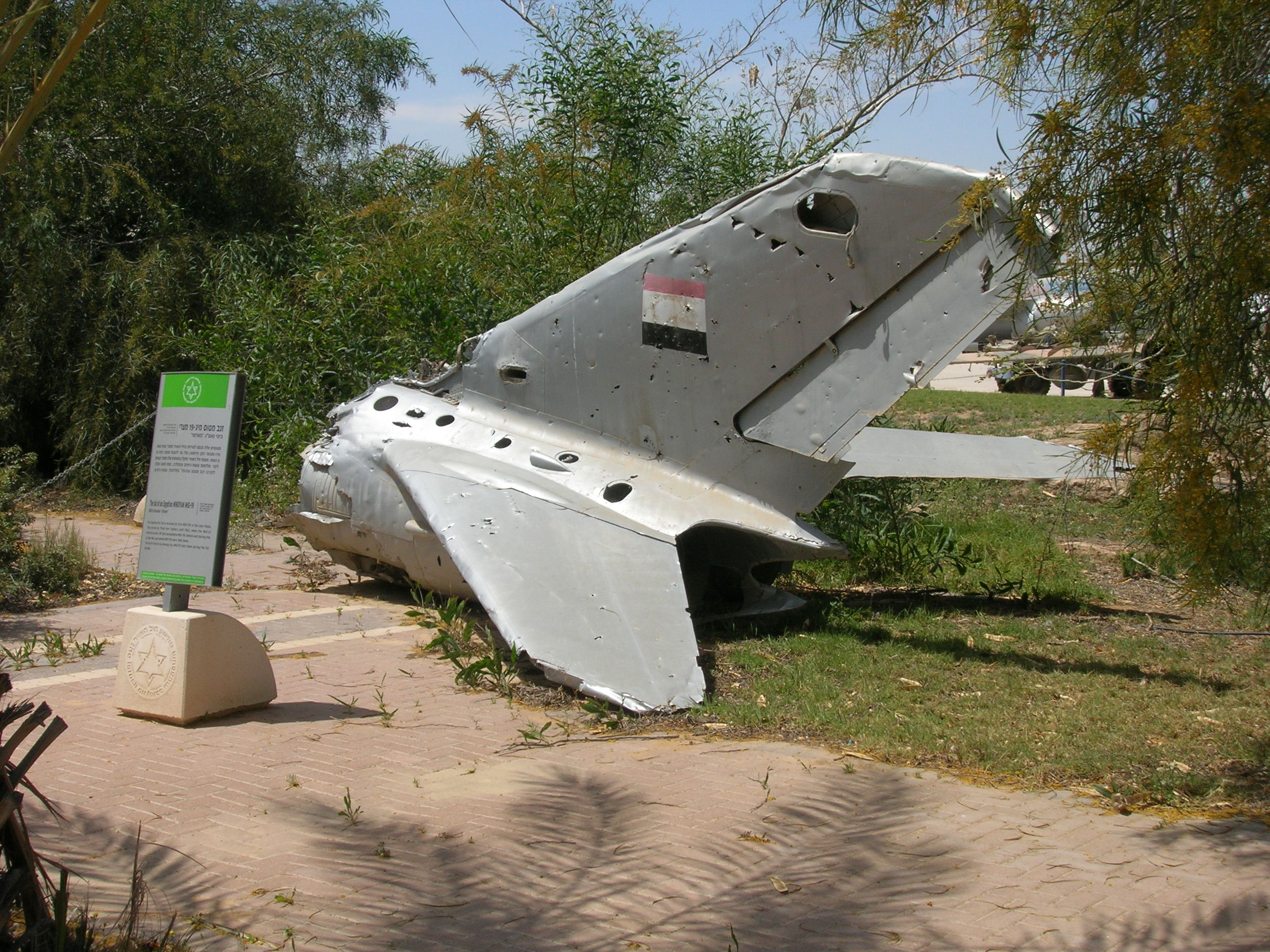 Tail of an Egyptian Air Force Mikoyan Mig-19